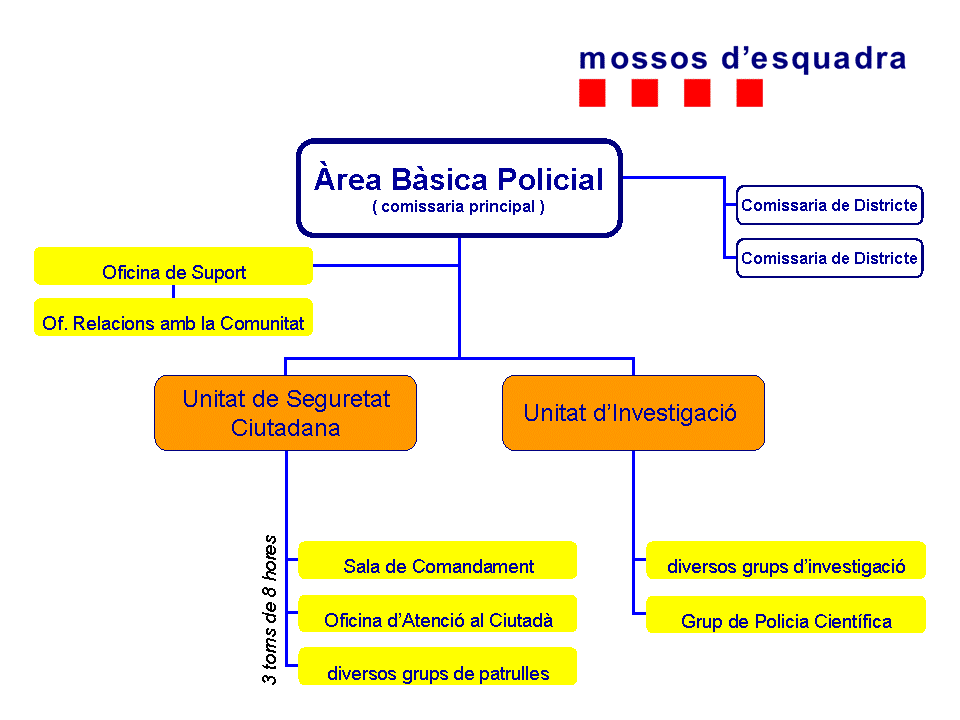 Structure about a Basic Police Department from Police of the Generalitat - Mossos d'Esquadra.